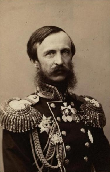 Viktor Illarionovich Vasilchikov (1820—1878)